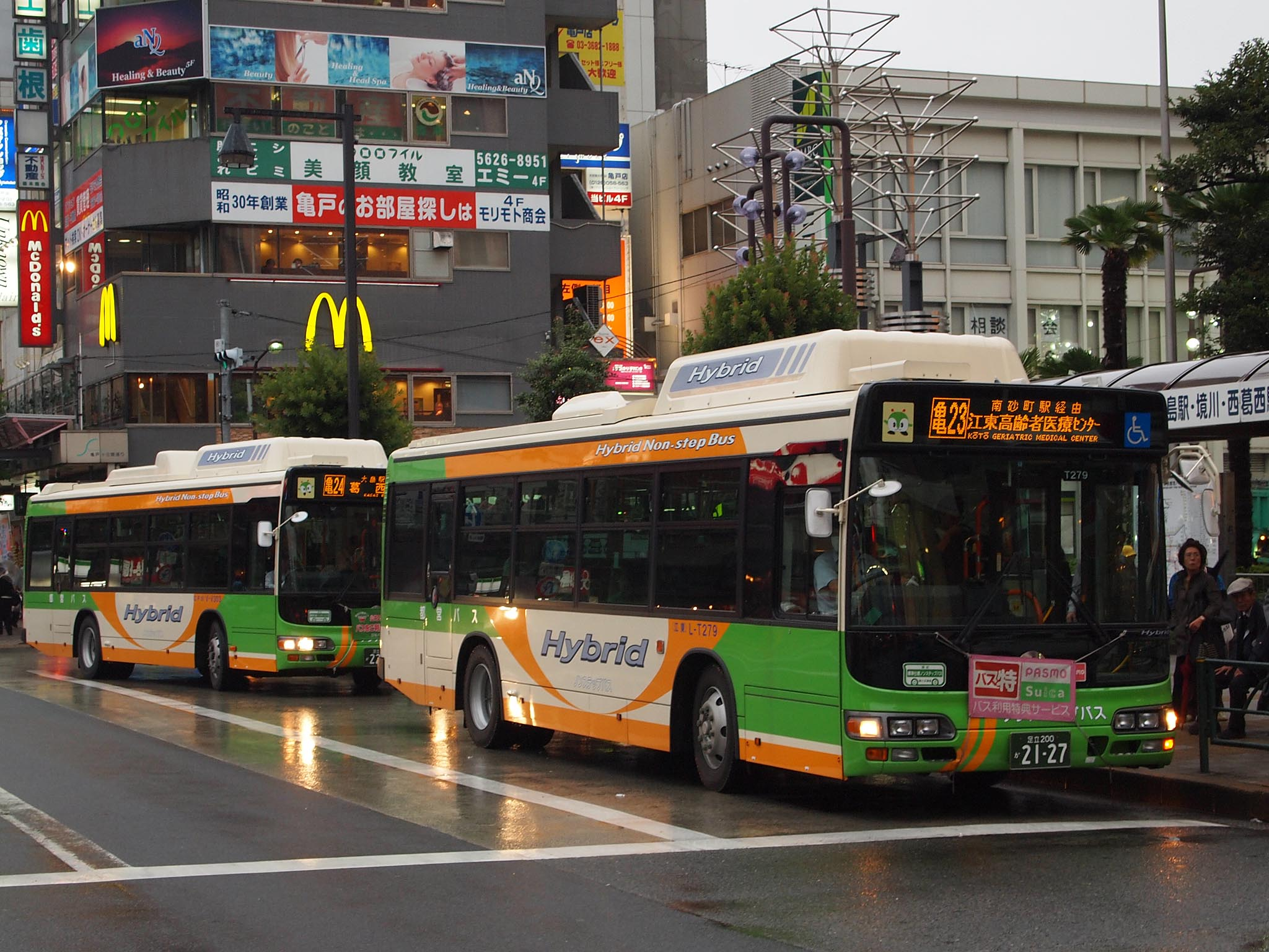 Hino Blue Ribbon City Hybrid Forward: BJG-HU8JLFP (2007 Edition) License plate:TKA200 KA2127 Aft: LJG-HU8JLGP (2010 Edition) License plate: TKA200 KA2236 Place: Kameido Station, Koto Ward, Tokyo Japan